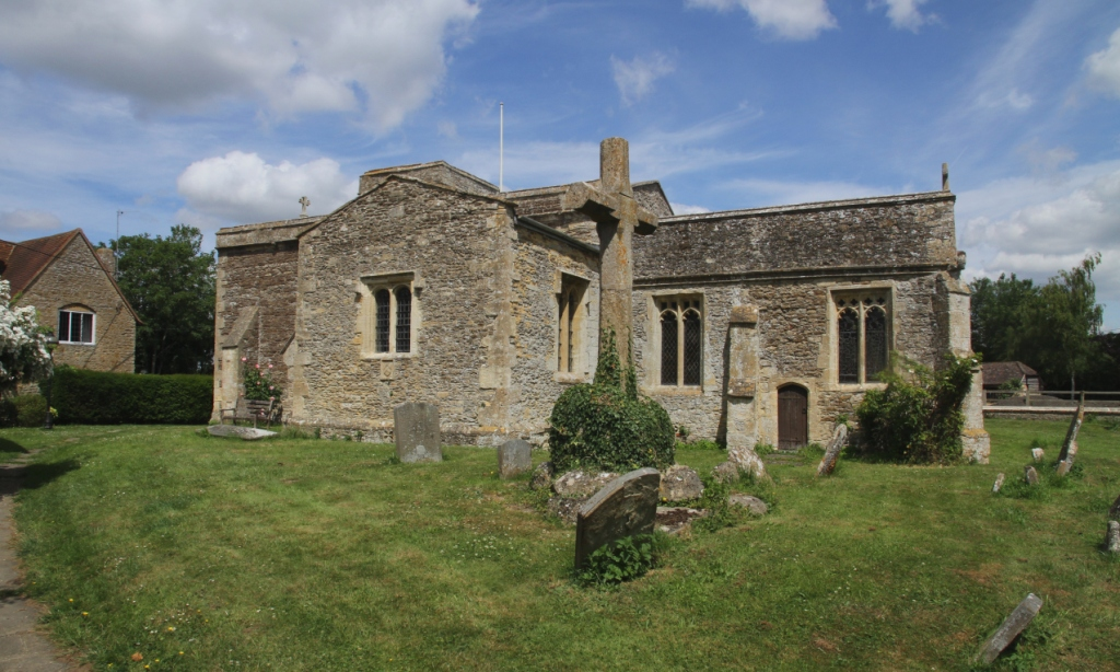 St James the Great parish church, Denchworth, Oxfordshire (formerly Berkshire), seen from south-southeast